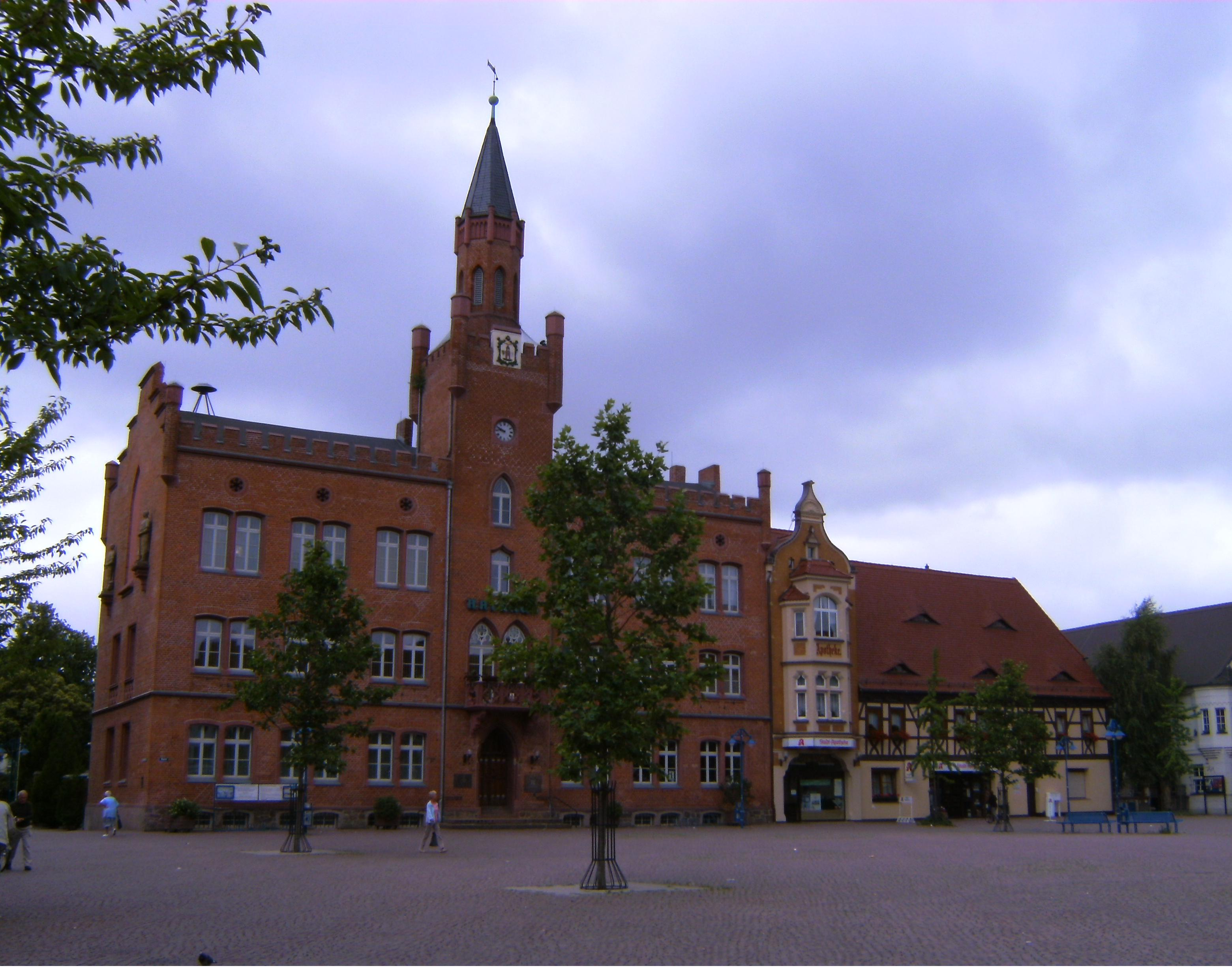 Guildhall of Bitterfeld